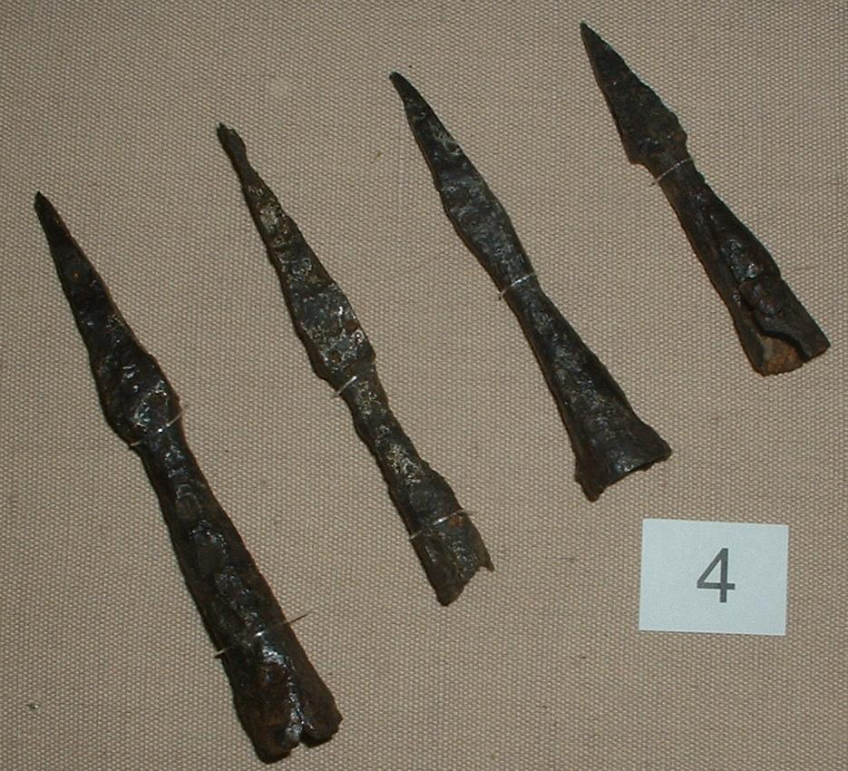 Iron ballista bold heads. Photograph was taken in the Somerset County Museum in Taunton on 29-Oct-05.